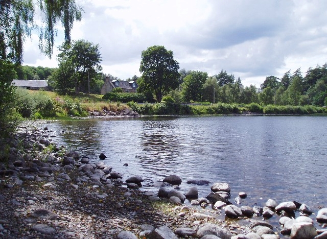 Loch Alvie. Loch Alvie is to the east of the A9, midway between Kincraig and Aviemore. This view looks over the southern shore of the loch towards Kinrara Croft.